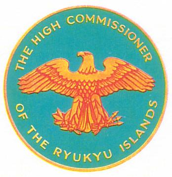 Seal of High Commissioner of the Ryukyu Islands